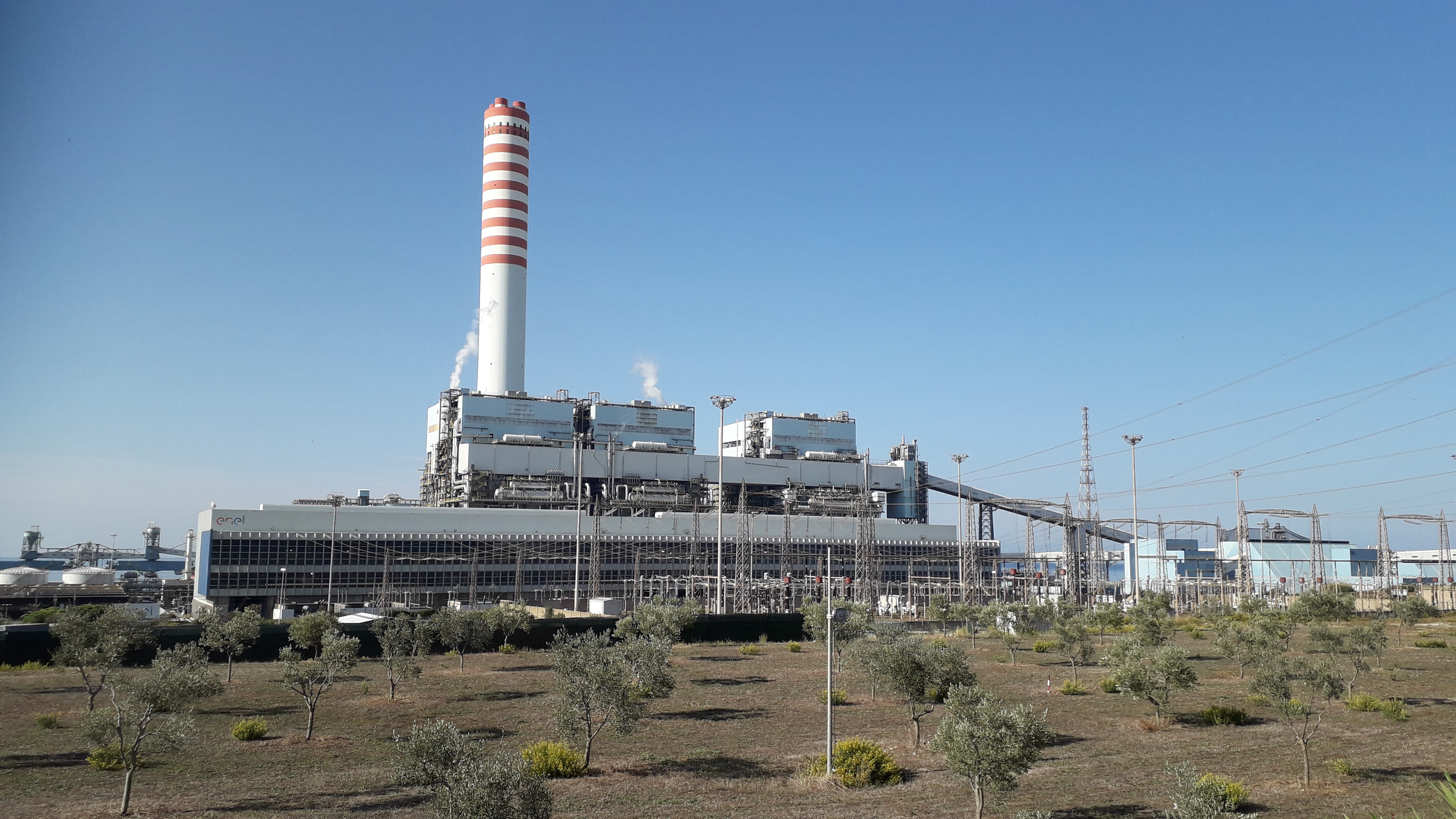 Panoramic view of Torrevaldaliga Nord power plant in Civitavecchia, Italy